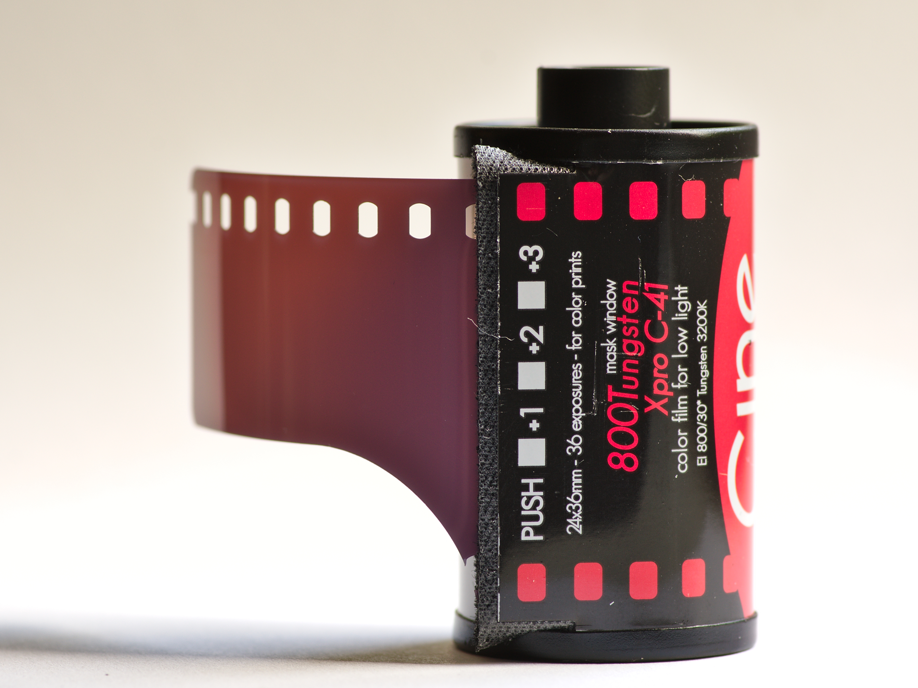 Cinestill tungsten-balanced ISO 800 film for C-41 process in 135 format